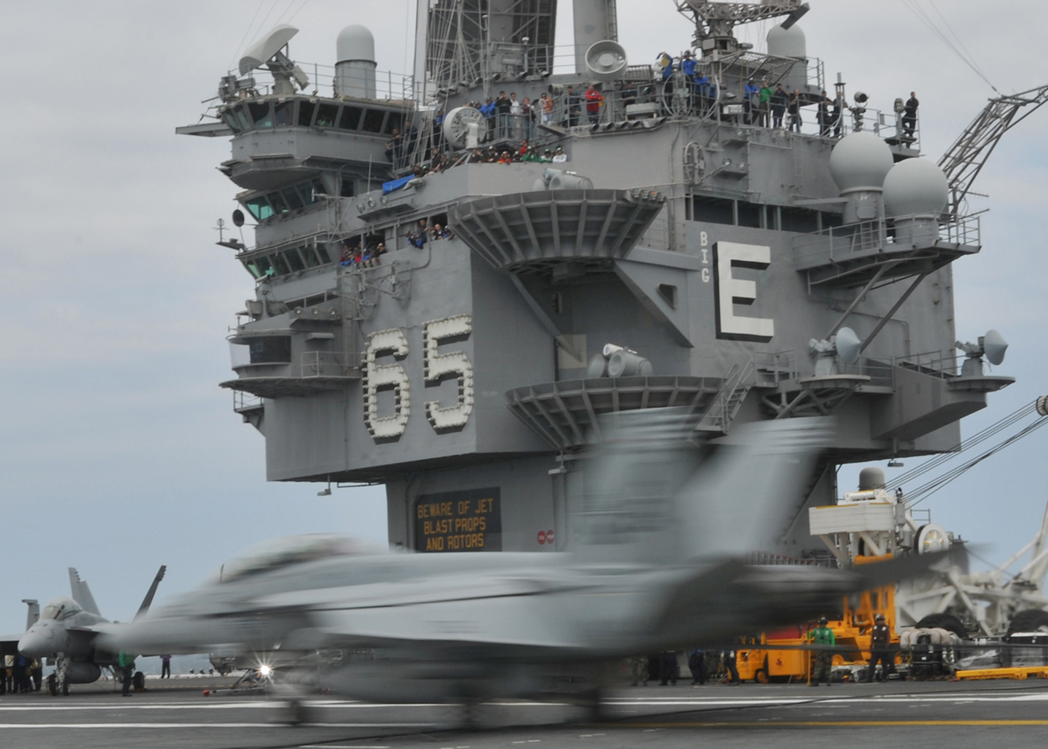 ATLANTIC OCEAN (May 12, 2010) An F/A-18F Super Hornet assigned to the Fighting Checkmates of Strike Fighter Squadron (VFA) 211 lands aboard the aircraft carrier USS Enterprise (CVN 65) as part of the first squadron to land aboard the ship in more than two years. Enterprise is conducting flight deck certification leading to its 21st deployment. (U.S. Navy photo by Mass Communication Specialist 2nd Class Travis S. Alston/Released)